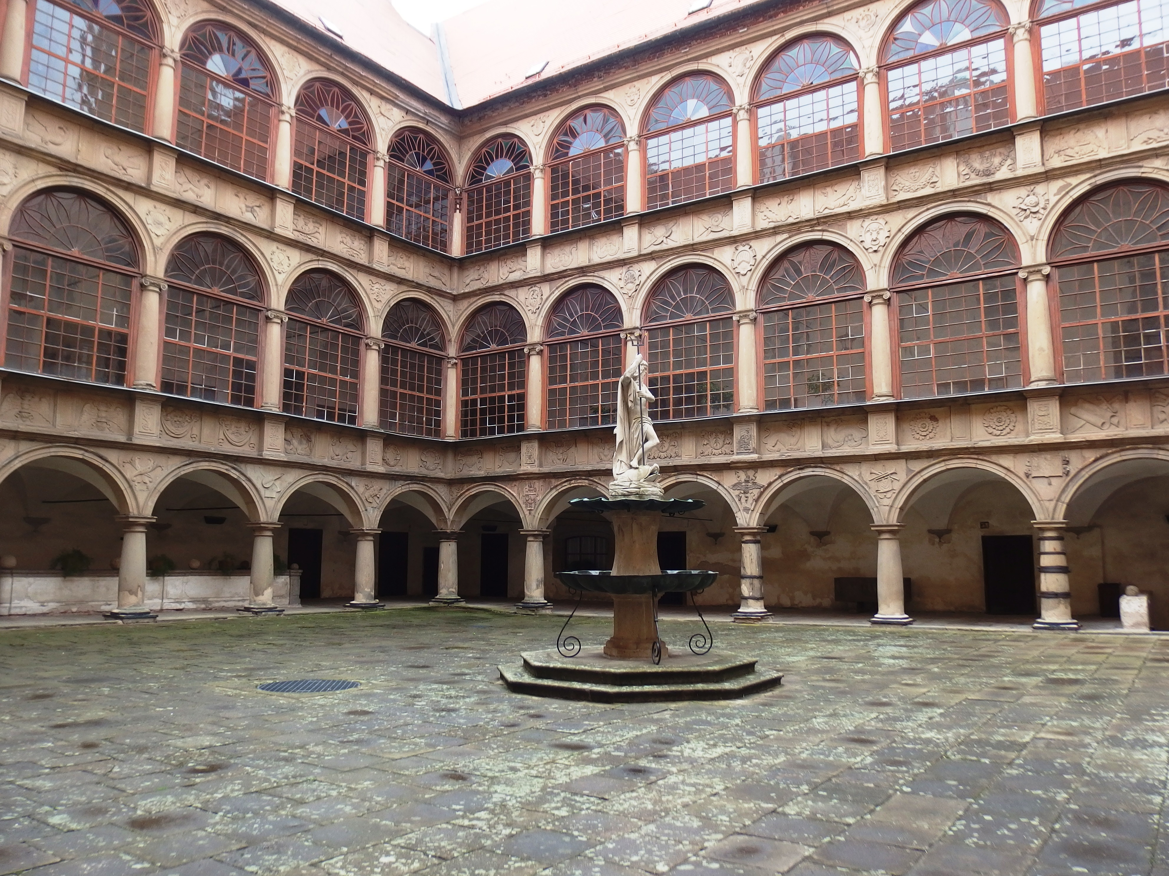 Náměšť nad Oslavou, Třebíč District, Czech Republic. Castle, second courtyard.